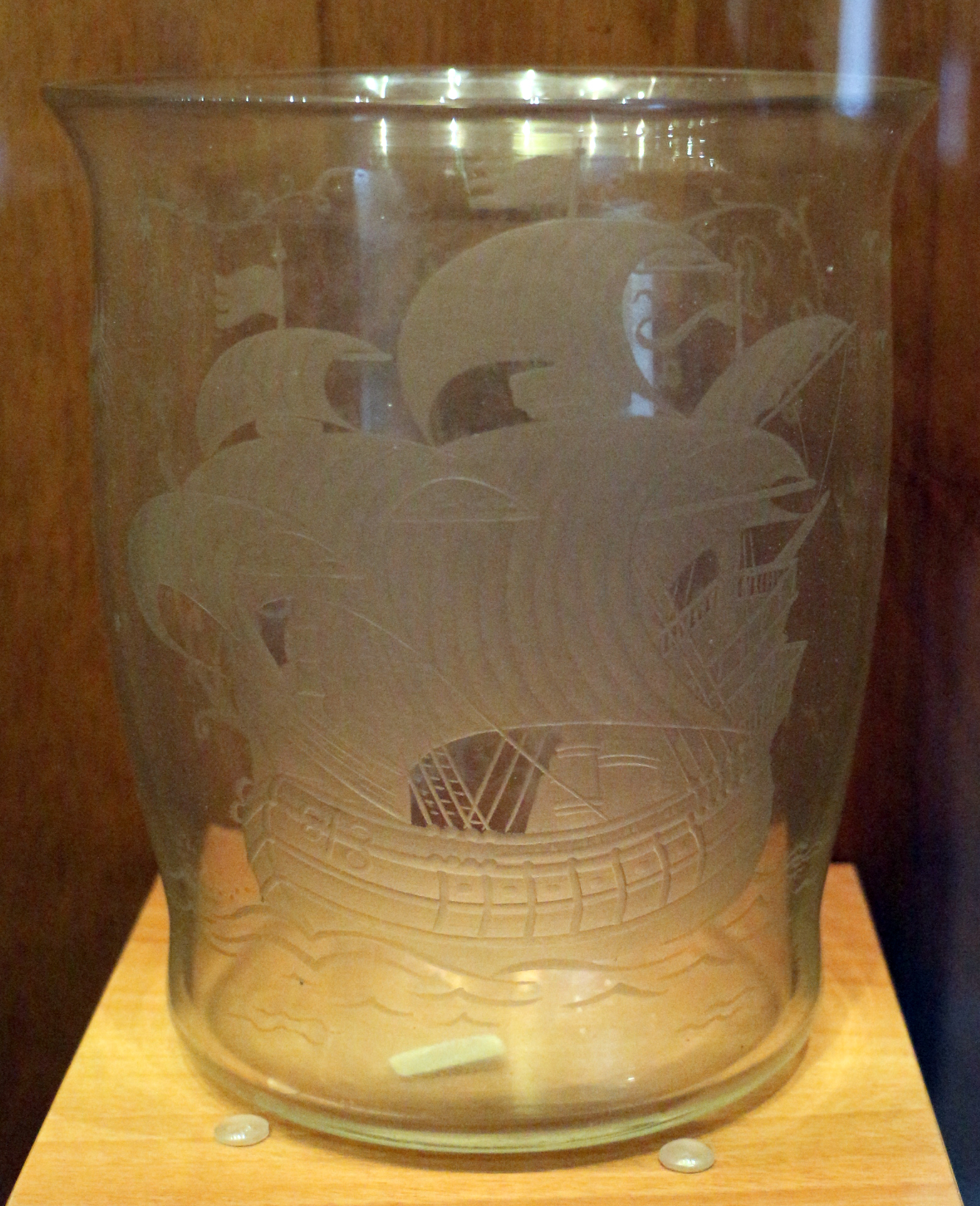 Raccolte d'arte applicate del Castello Sforzesco di Milano - Glass